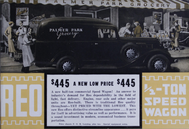 1930s advertisement for the half-ton REO Speed Wagon (yes - you read it correctly)